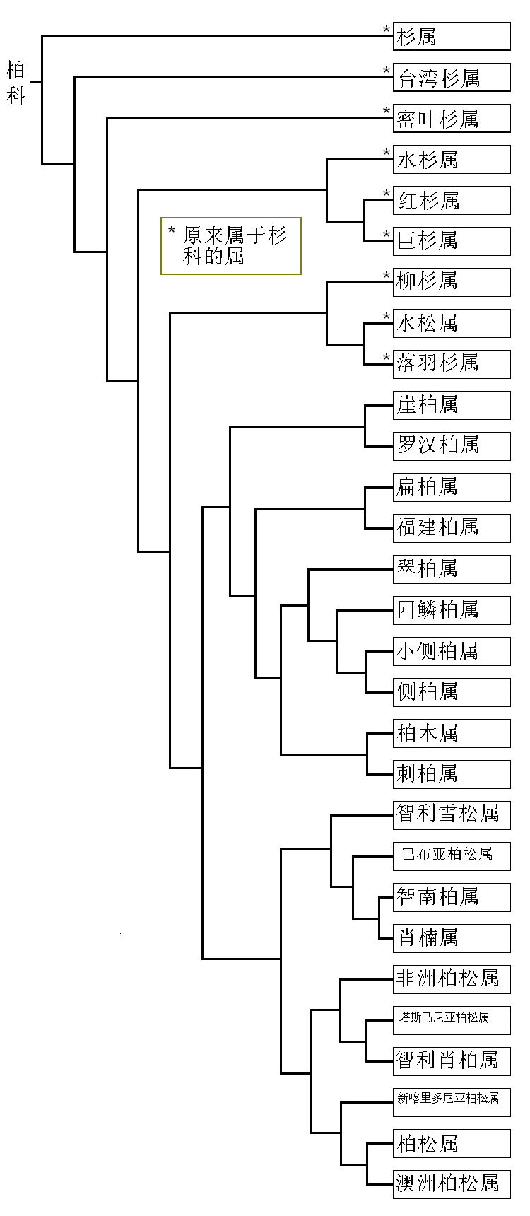 Cupressaceae phylogeny - diagram by User:MPF